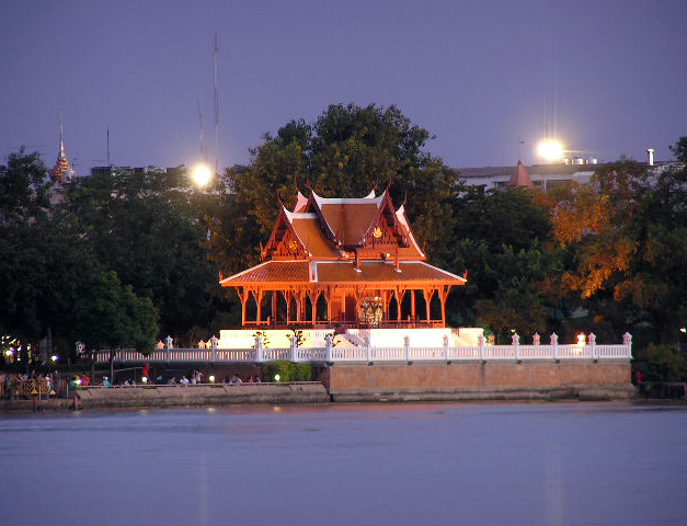 Santichaiprakarn Hall in Santichaiprakarn Park, in Bangkok, Thailand. A sala - pavilion.